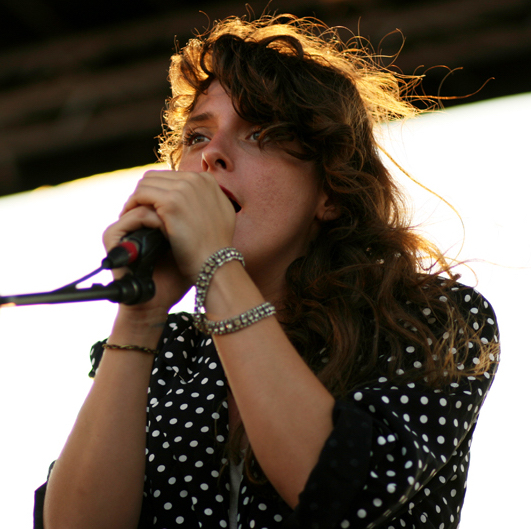 shot for --- with Victoria Legrand of Beach House on Two Weeks